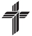 Lutheran Church–Missouri Synod - Emblems of belief available for placement on USVA headstones and markers